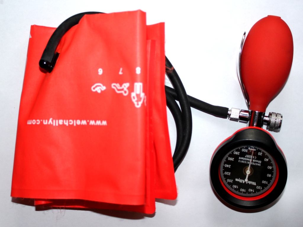 Aneroid sphygmomanometer with an adult cuff